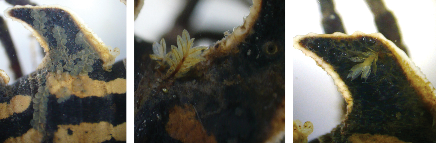 Examples of bryophytes on Psammodesmus bryophorus. From right to left: Lejeuneaceae, Fissidentaceae, Pilotrichaceae